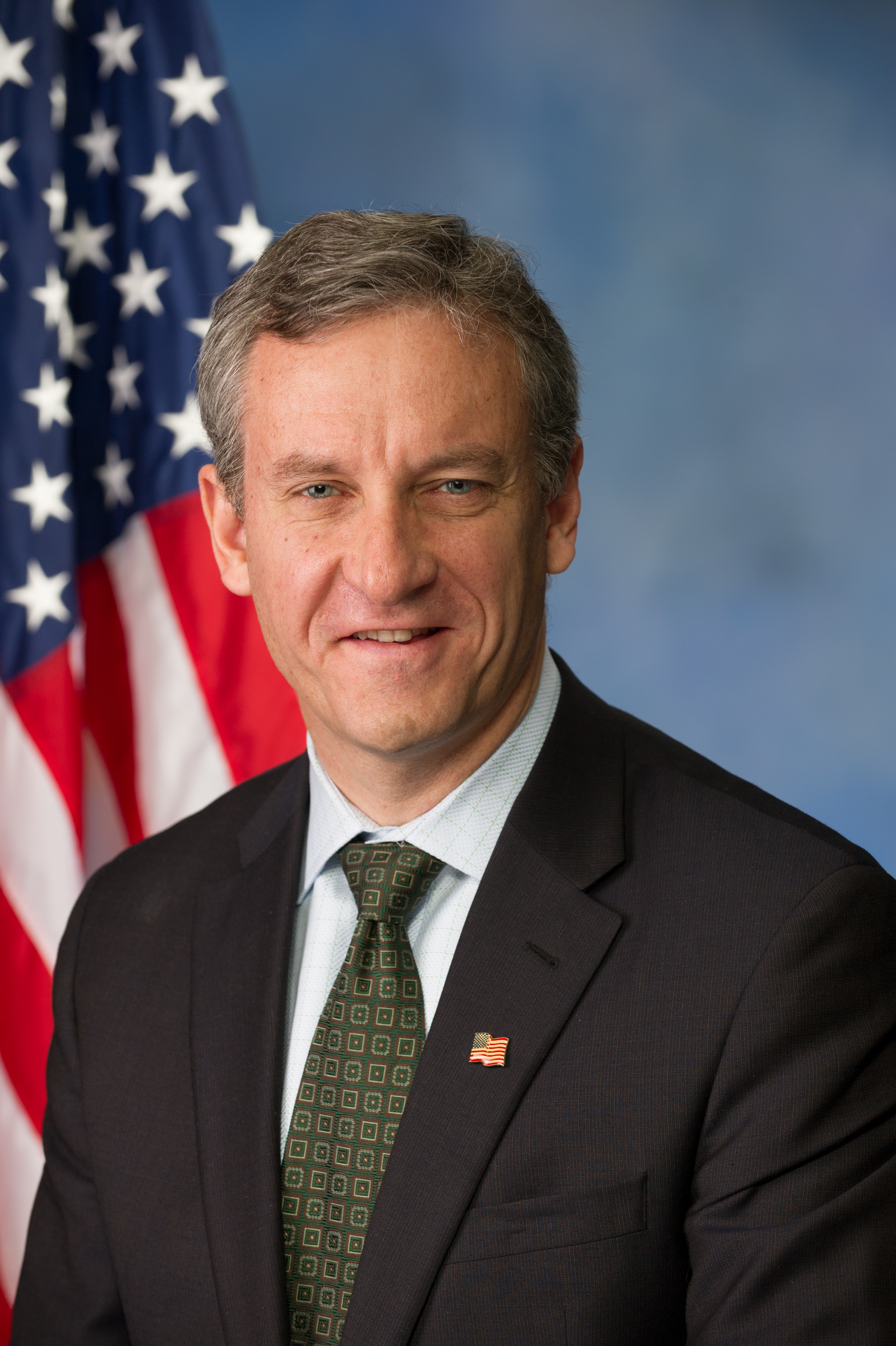 Official portrait of Congressman Matt Cartwright (D-PA).